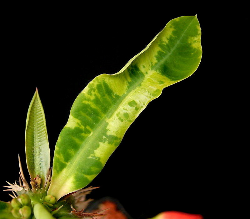 Euphorbia viguieri infested by Tobacco mosaic virus